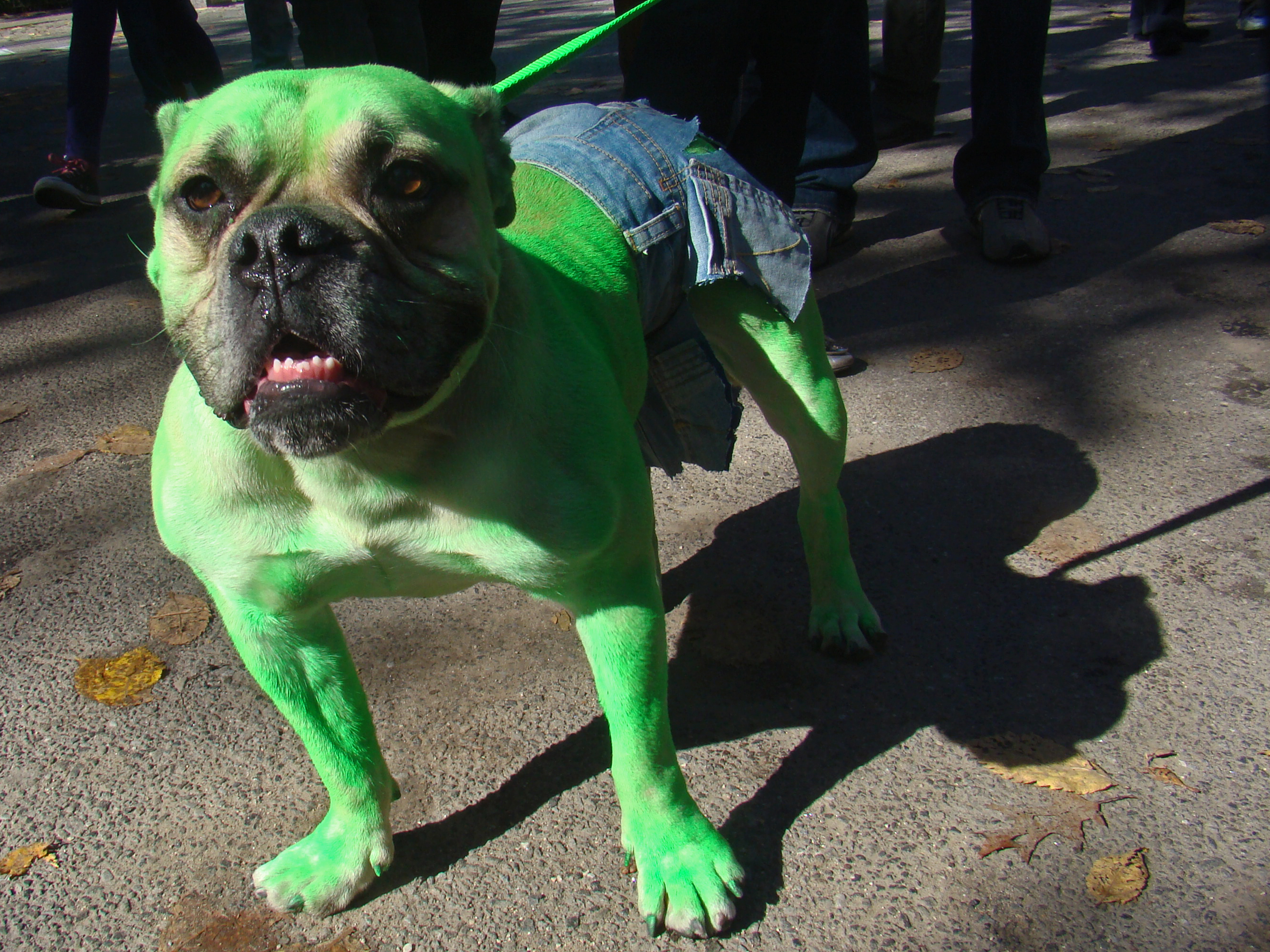 Hulk Dog! As seen on CuteOverload! This was one of my favorite dog "costumes" at the 19th Annual Tompkins Square Halloween Dog Parade, October 25th, 2009, New York City. If you like this picture, check out my other pictures of dogs in costumes or my non-dog pictures.